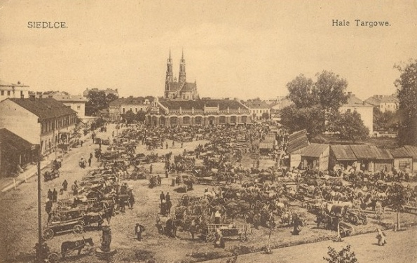 Marketplace in Siedlce